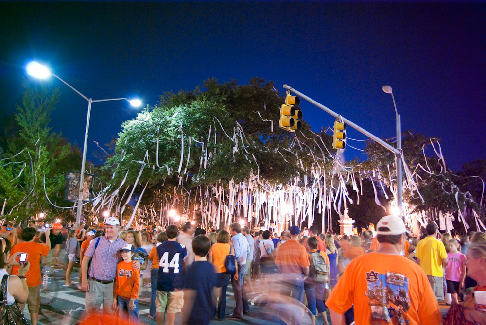 Rolling Toomer's Corner, an Auburn University tradition after a sports win. Another shot from my most recent photo assignment. Read more about the whole experience here. War Eagle!